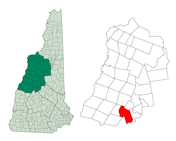 Map of a municipality in Belknap County, New Hampshire